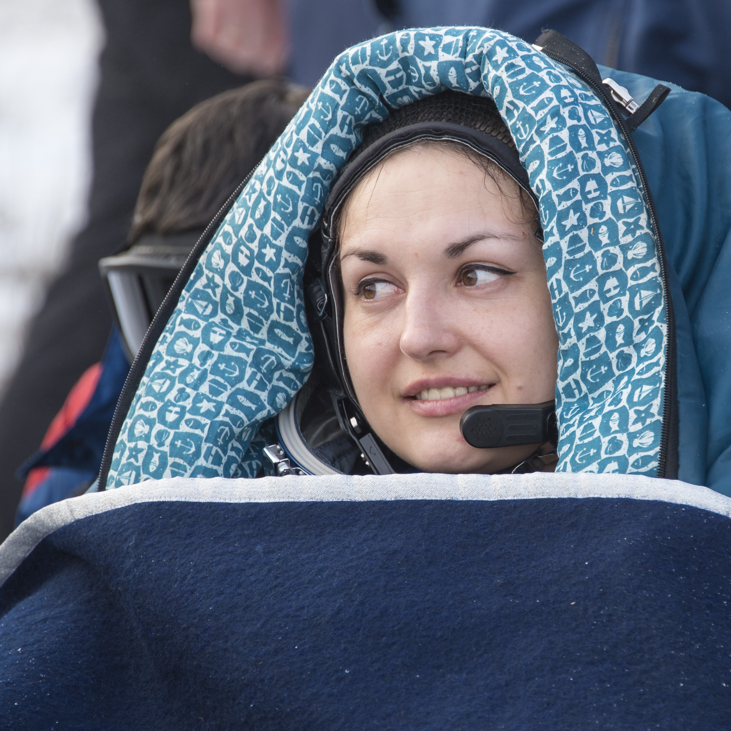 Expedition 42 Cosmonaut Elena Serova of the Russian Federal Space Agency (Roscosmos) rests in a chair outside the Soyuz TMA-14M spacecraft just minutes after she and NASA Astronaut Barry Wilmore of NASA, and Alexander Samokutyaev of Roscosmos landed in a remote area near the town of Zhezkazgan, Kazakhstan on Thursday, March 12, 2015. NASA Astronaut Wilmore, Russian Cosmonauts Samokutyaev and Serova are returning after almost six months onboard the International Space Station where they served as members of the Expedition 41 and 42 crews.